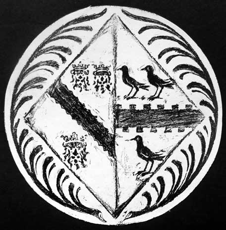 Detail from ledger stone in Canterbury Cathedral of Anne Tenison (d.1750), widow of Edward Tenison (1673–1735), Bishop of Ossory in Ireland and Prebendary of Canterbury Cathedral. She was born as Anne Searle (or Sayer) and was a niece of her husband's cousin, namely Thomas Tenison (1636-1715), Archbishop of Canterbury. The medallion is 23 inches in diameter and is cut in relief on a blue marble ledger stone, 80inch x 39inch situated on the north side of the Cloisters. The escutcheon is lozenge-shaped, as borne by a female, and shows the arms of Tenison (Gules, three leopard's faces or jessant-de-lys azure over all a bend engrailed argent (Burke's General Armory 1884)) impaling Searle or Sayer (A fess battled-counter-embattled between three birds). The jessant-de-lys charge has been misinterpreted by the stone mason as leopard's heads ducally crowned, with forked beards. The inscription is as follows: "Here lyes the body of Anne Tenison widow of Dr Edward Tenison late Bishop of Ossory in Ireland formerly Prebendary of this Church. She died the 8 Day of April 1750 in the 75th year of her Age".